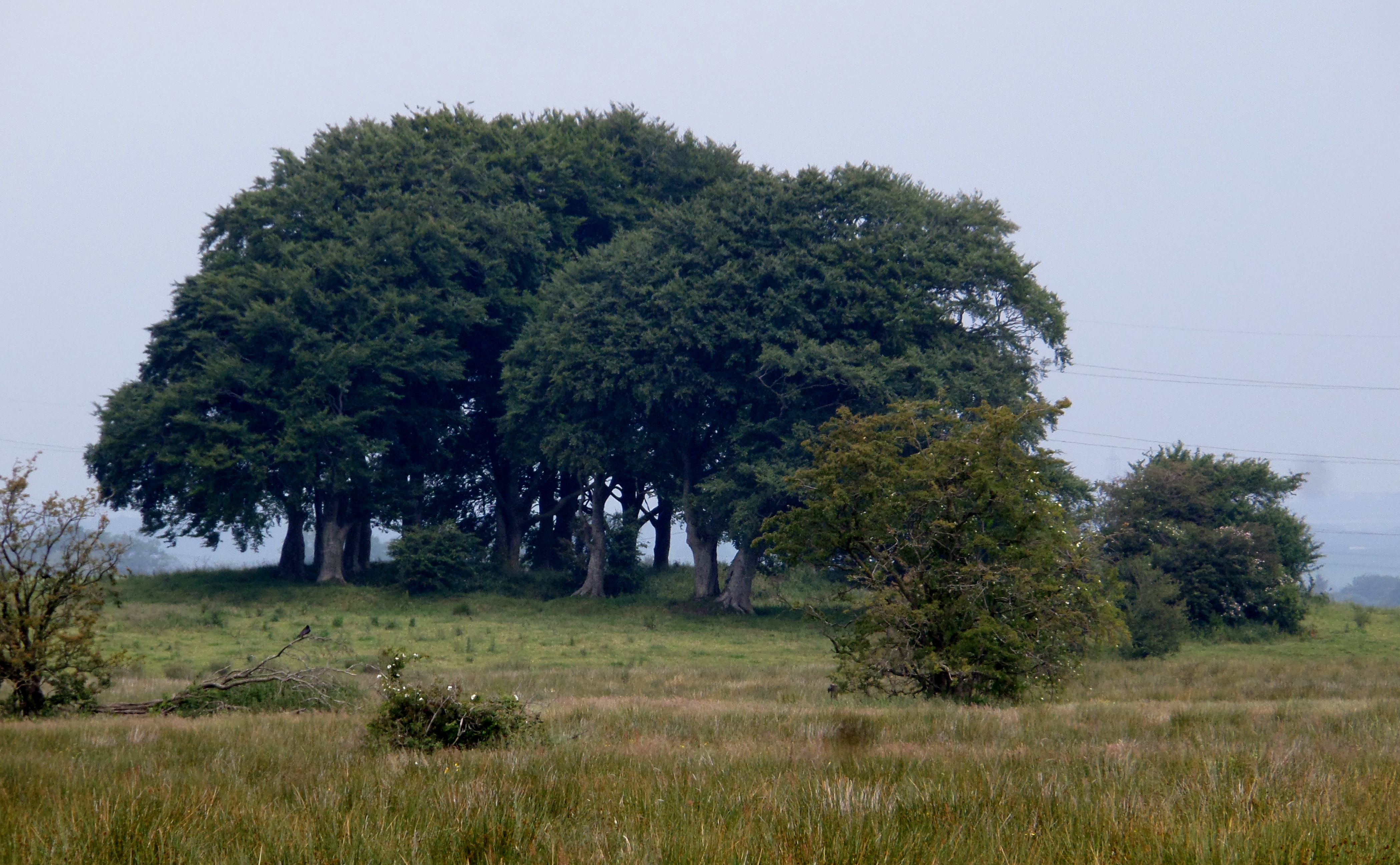 Tinkers Hill, Riccarton Moss, Kilmarnock, East Ayrshire, Scotland. Once the site of illicit cock fights and used as the court hill of Haining Place.